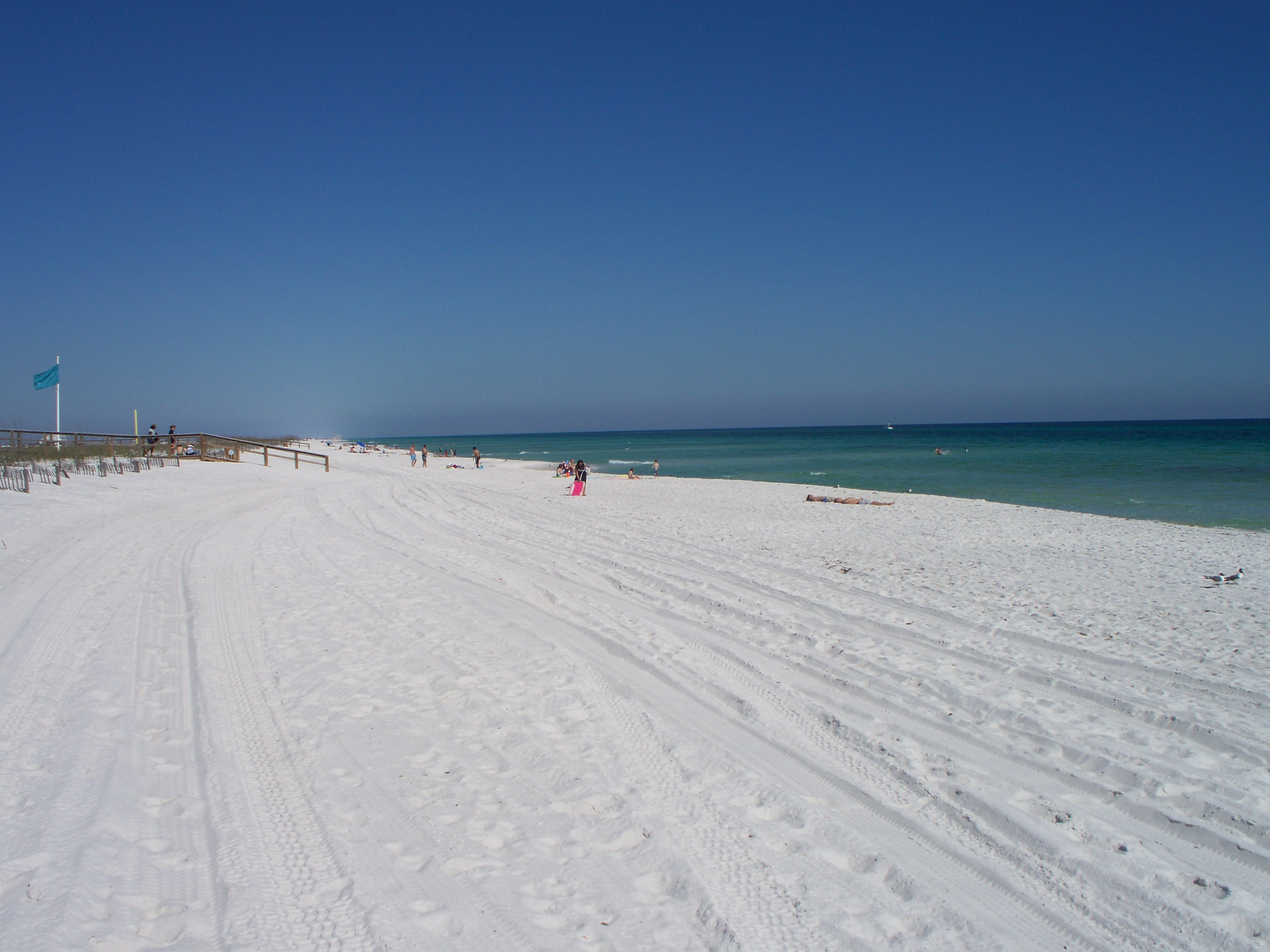 The beach and Gulf of Mexico at Navarre Beach, Florida